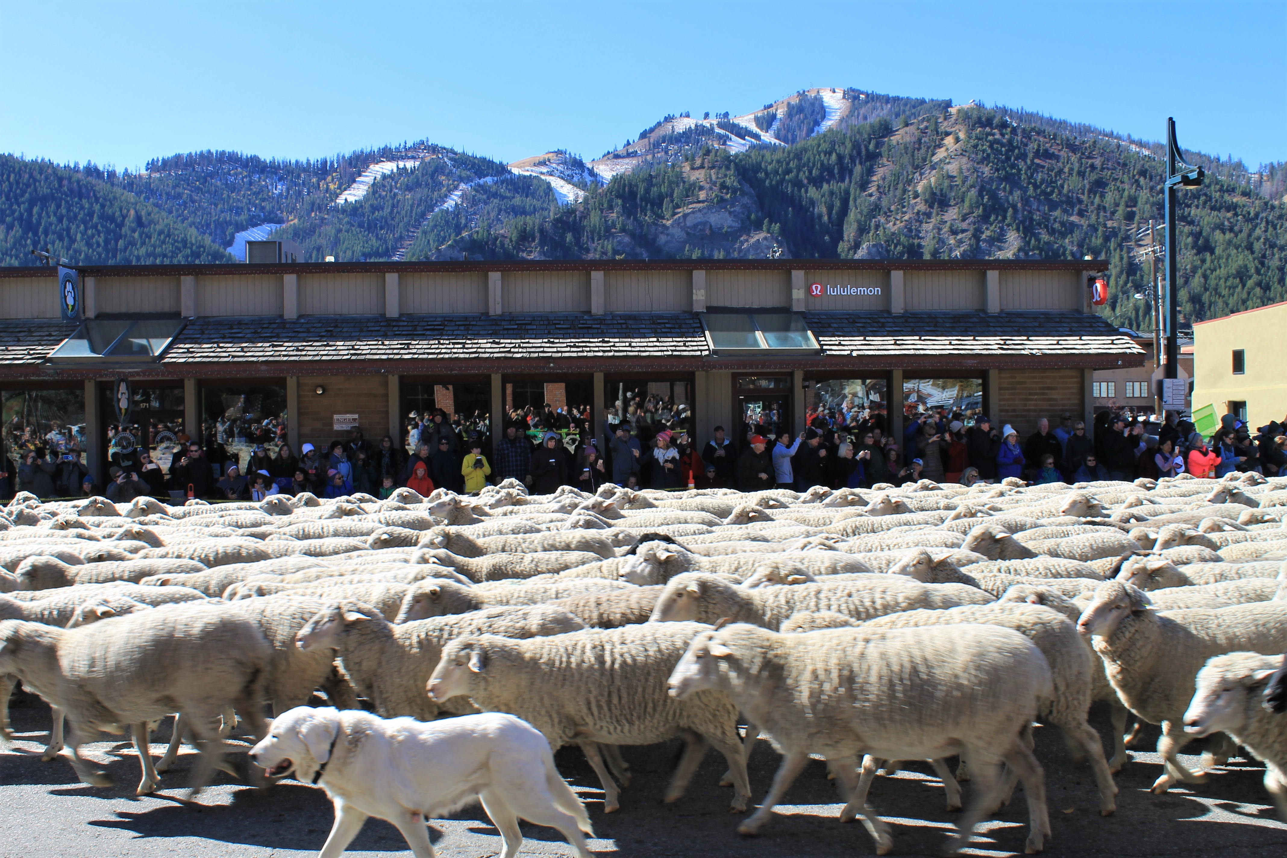 A photo from the Trailing of the Sheep Parade in October 2018.